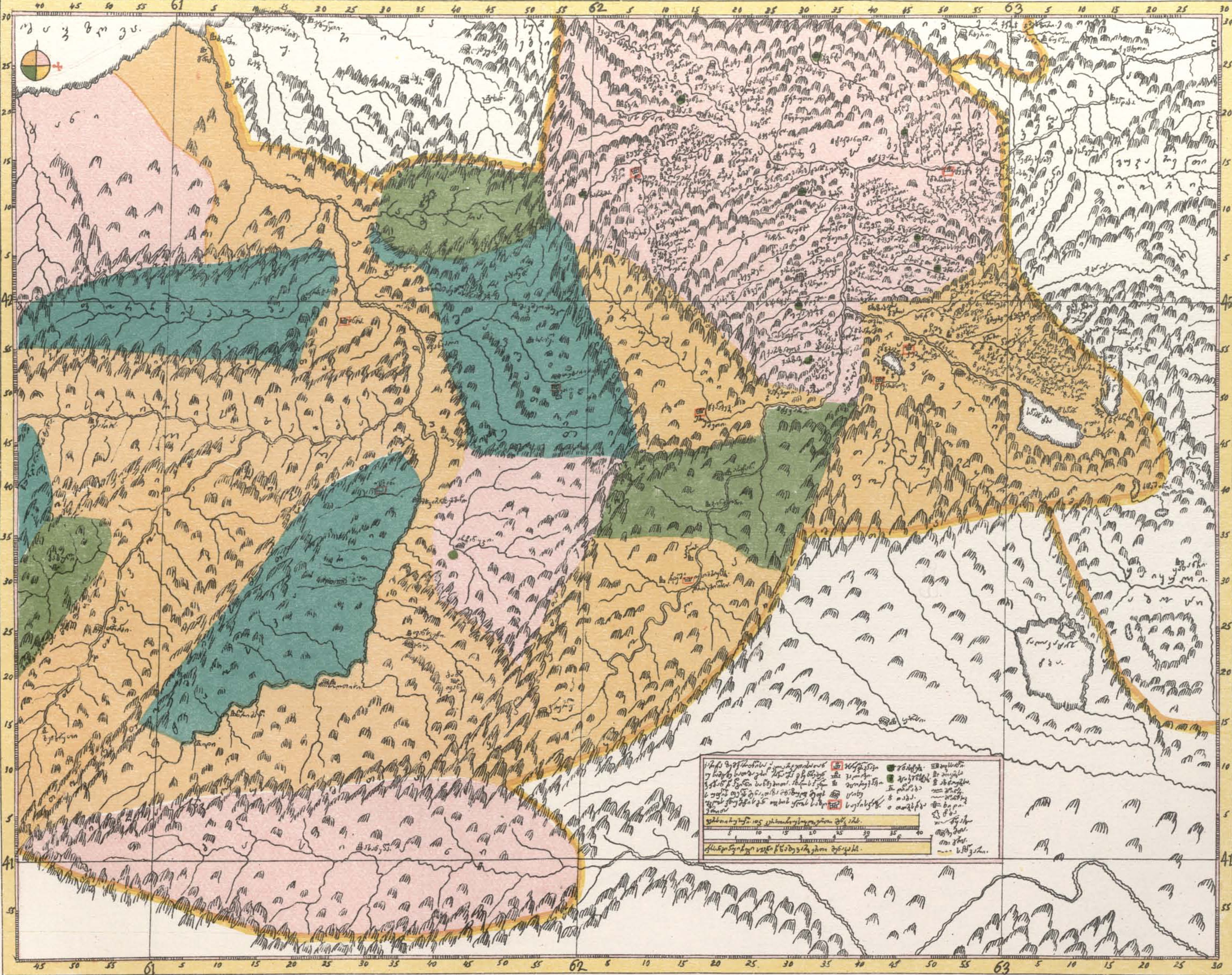 Map of Georgia by Prince Vakhushti Bagrationi